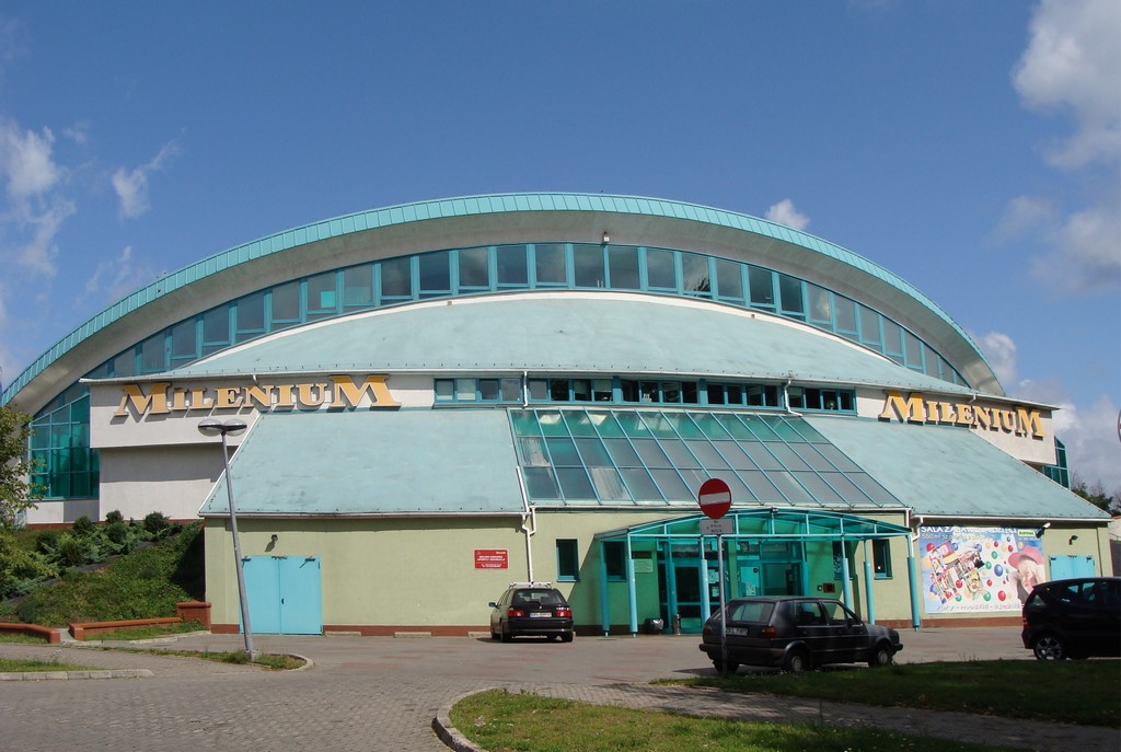 Kołobrzeg, sport's centre.